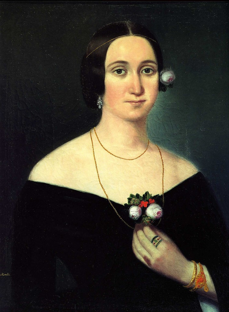 Portrait of Giuseppina Strepponi, second wife of Giuseppe Verdi. From the Museo Casa Barezzi.